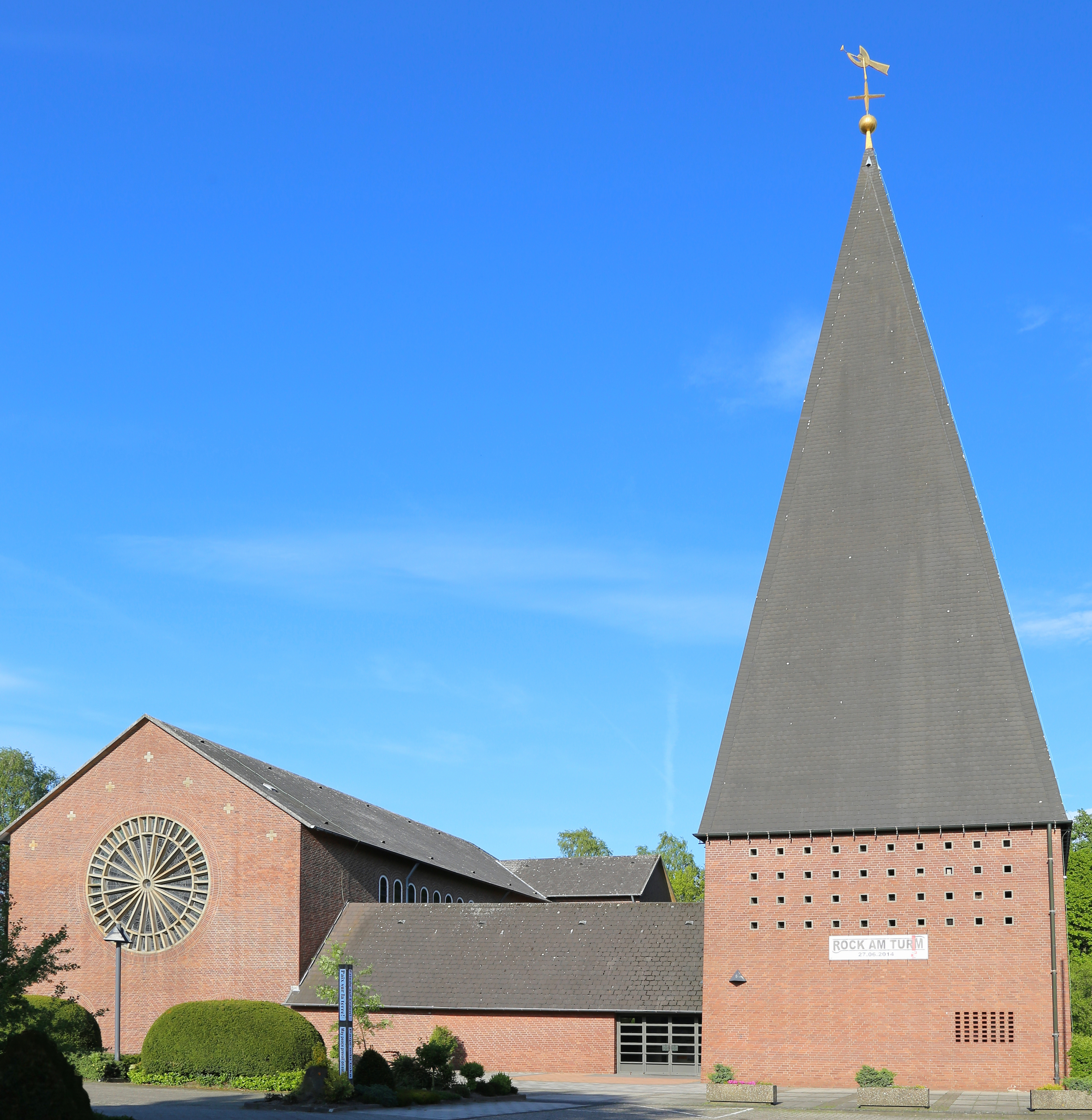 Roman Catholic Saint Michael Church (St.-Michael-Kirche) in Ibbenbüren-Bockraden, Kreis Steinfurt, North Rhine-Westphalia, Germany.